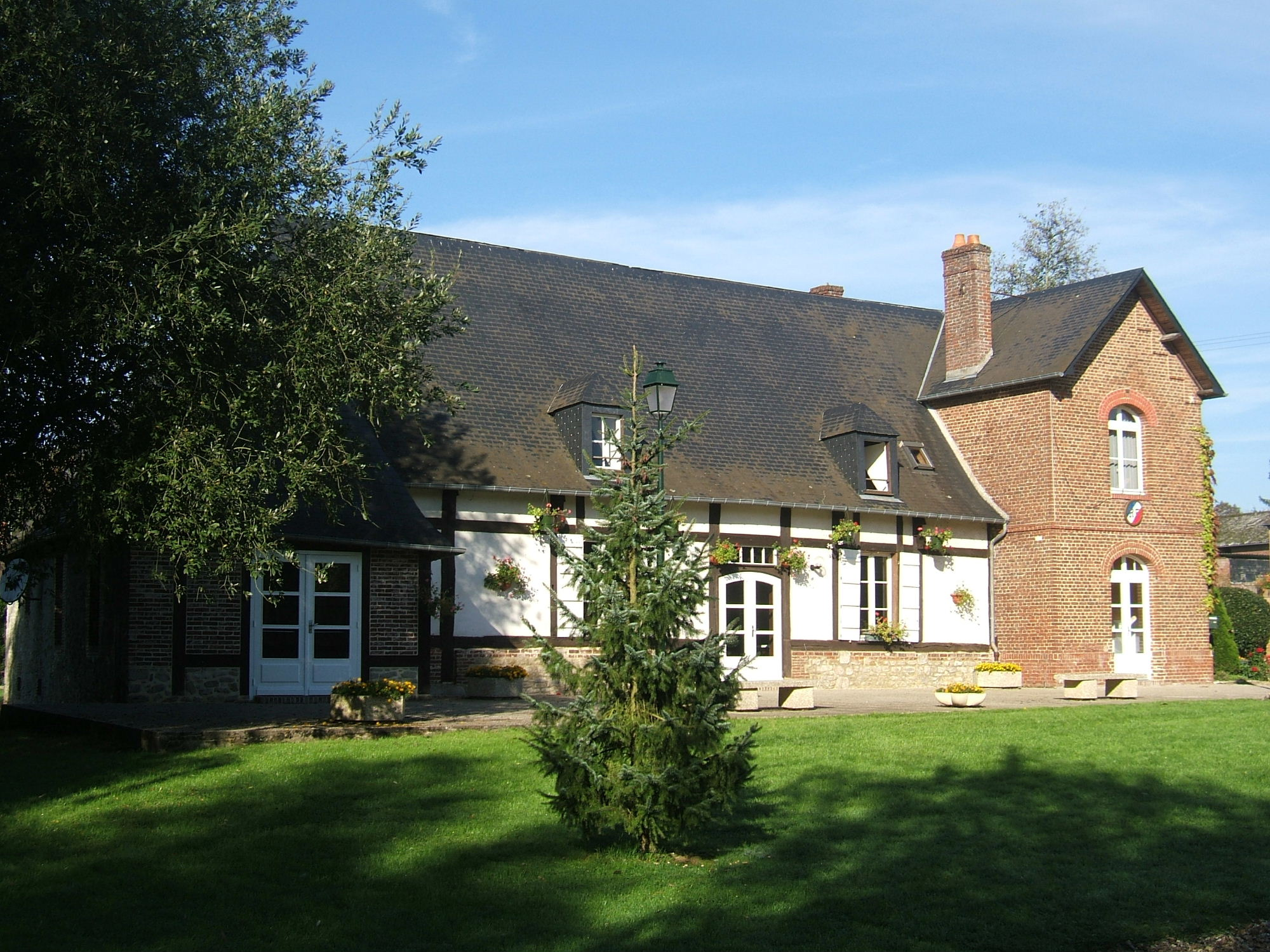 Mairie de Canny-sur-Thérain (Oise, France) / Town hall of Canny-sur-Thérain (Oise, France)